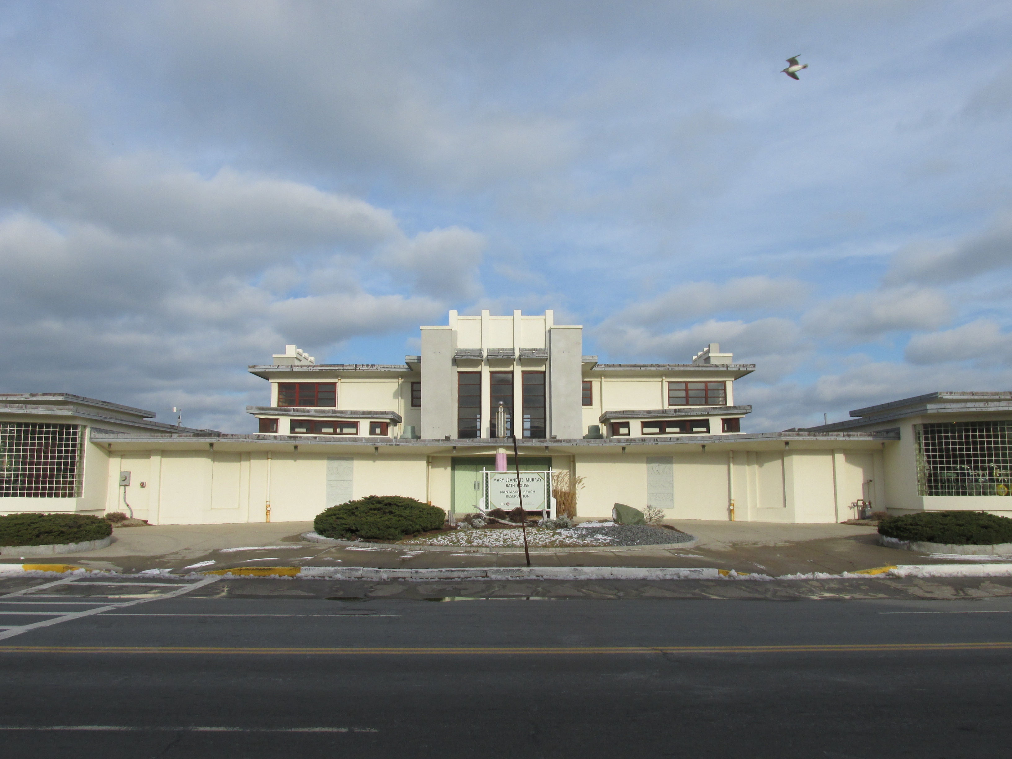 Mary Jeanette Murray Bath House, Nantasket Avenue, Nantasket Massachusetts - 2012